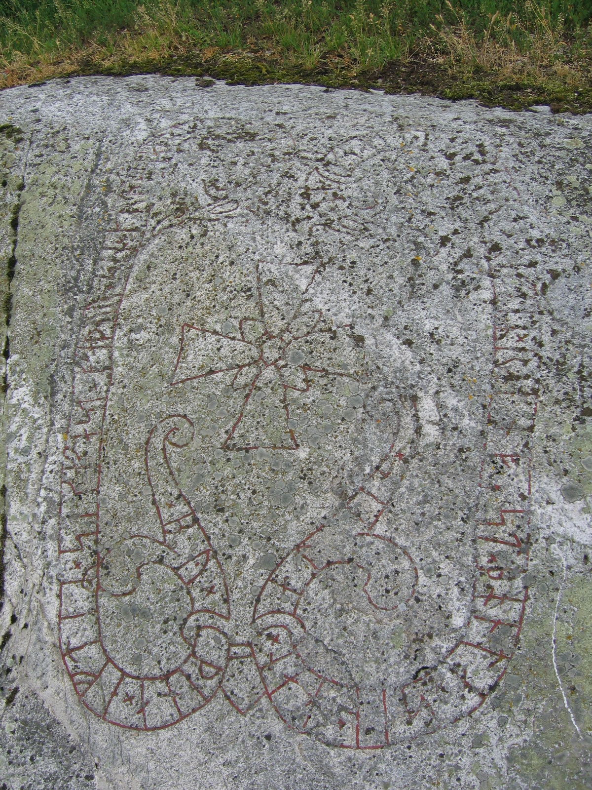 U 331, runestone at Snåttsta